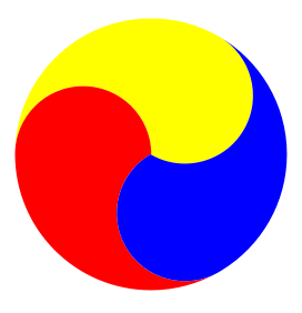 Sam Taegeuk (LynneCmix)